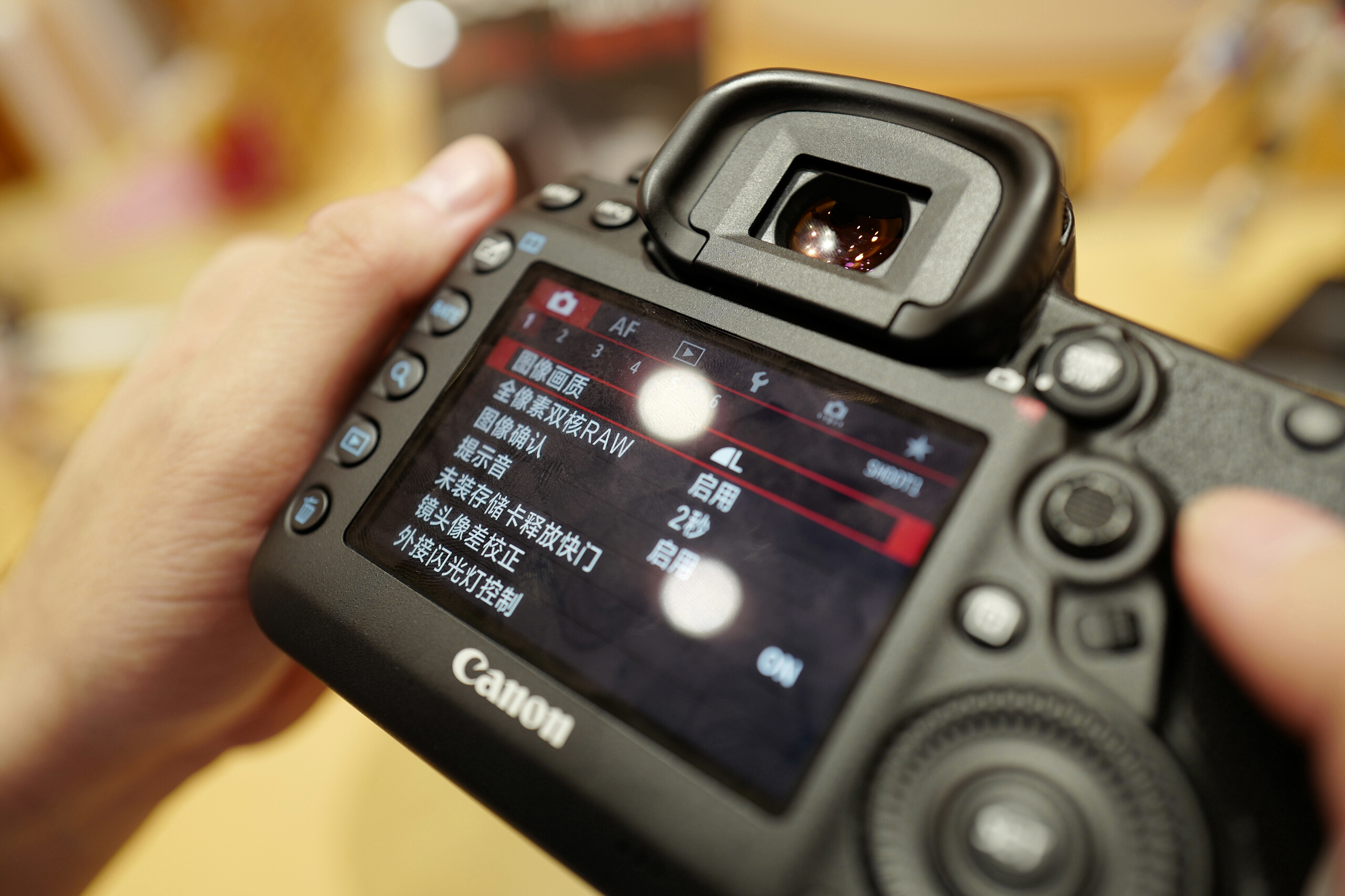 Canon EOS 5D Mark IV，Dual Pixel RAW in Menu.